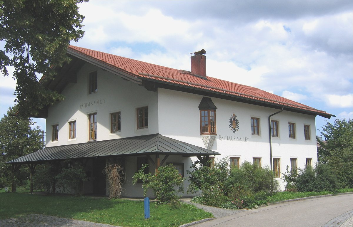 Rathaus in Valley